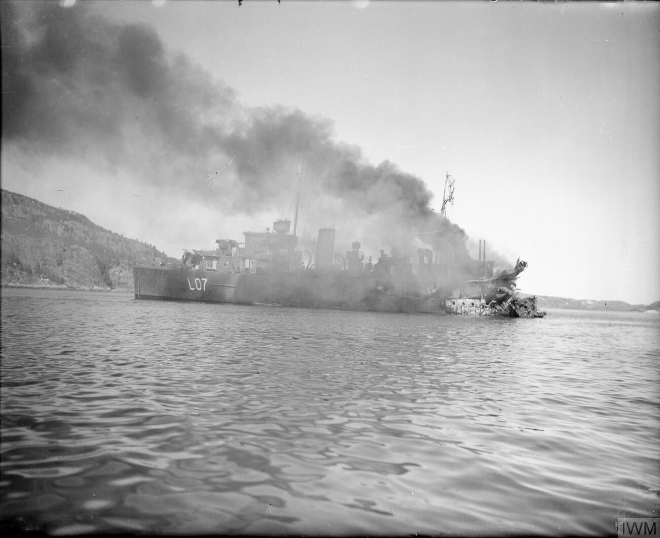 HMS BITTERN ablaze in Namsos Fjord after having suffered a direct hit in the stern by an aerial bomb during the evacuation of Namsos.